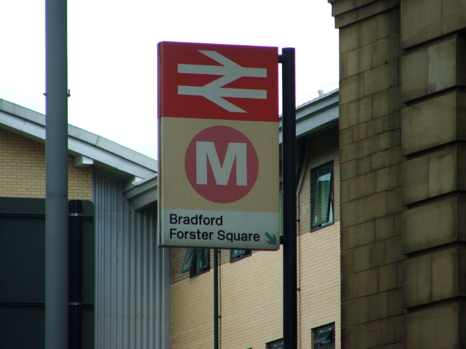 Sign outside Bradford Forster Square